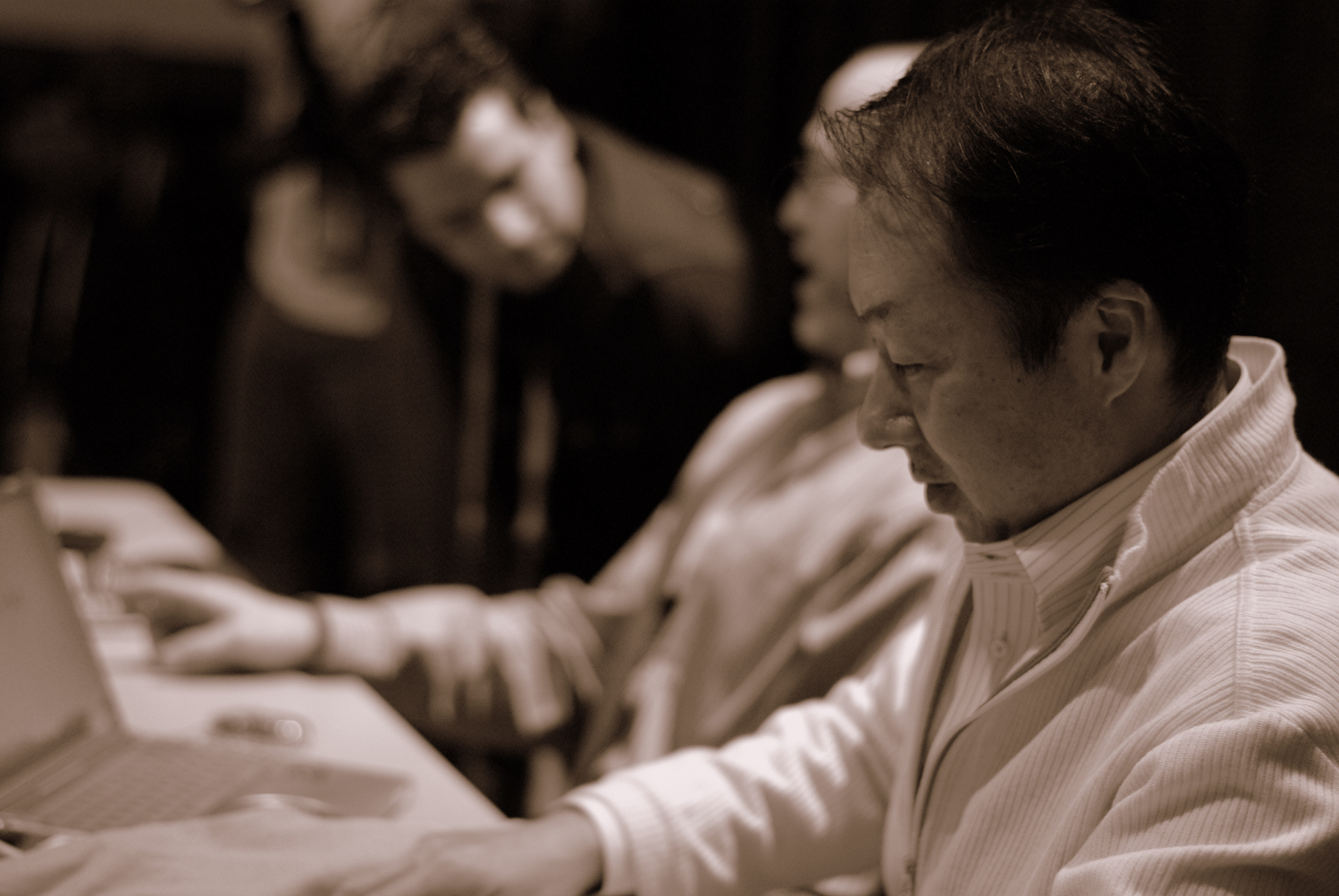 Kōji Kondō at the Game Developers Conference in 2007.